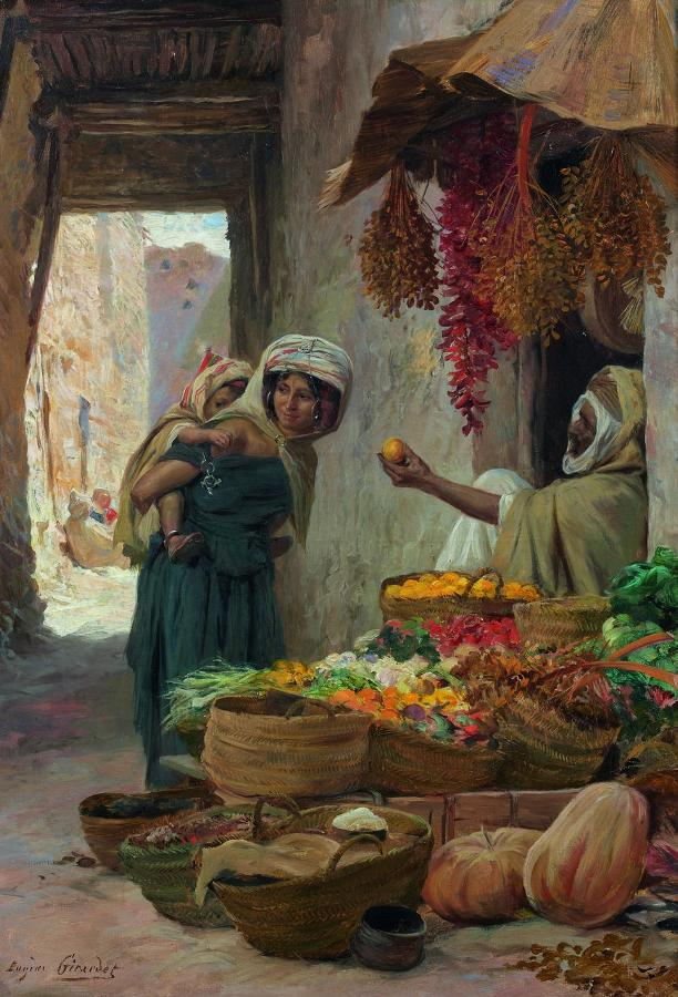 Eugène Alexis Girardet - Le marchand de fruits